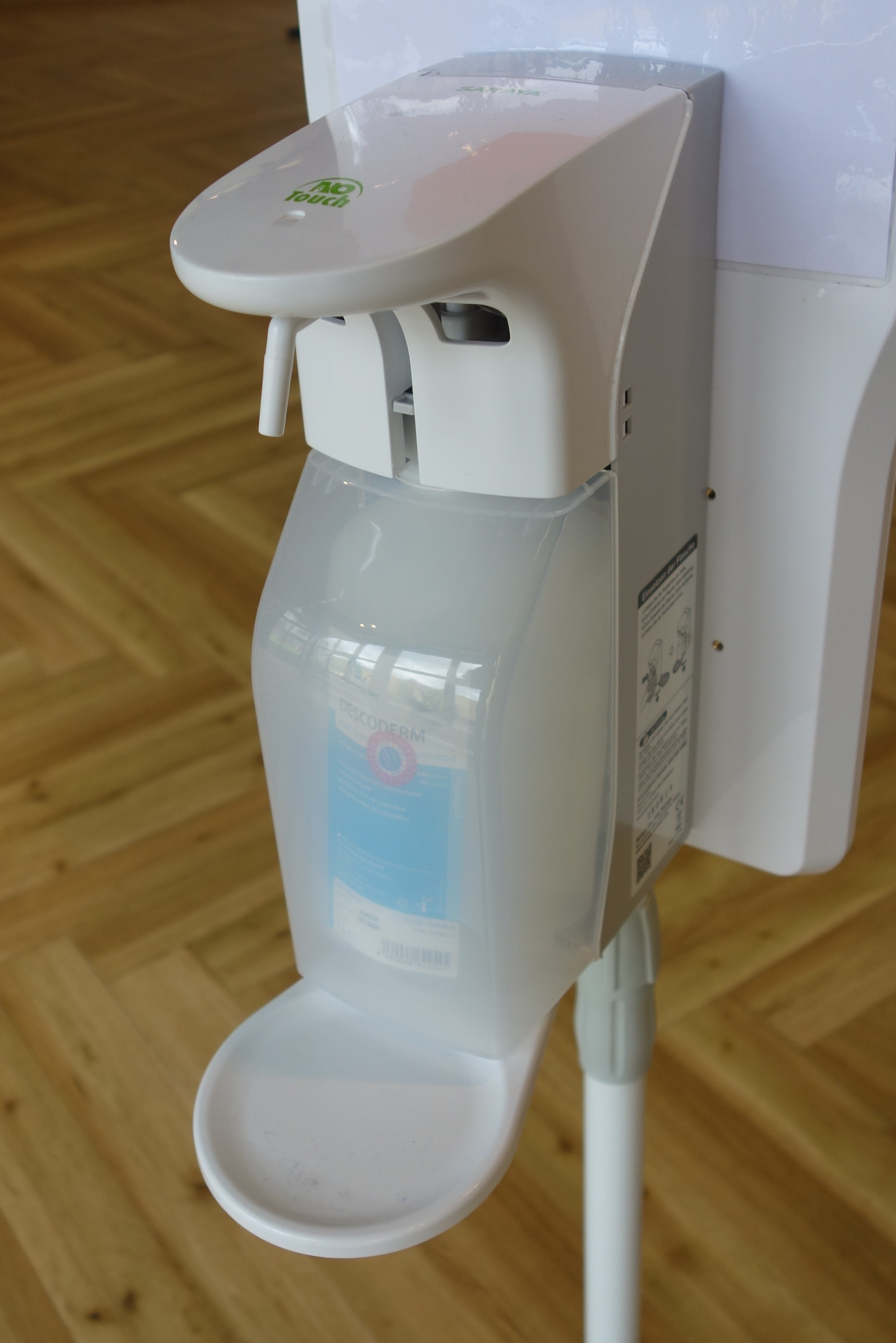 free standing dispenser with hand sanitizer